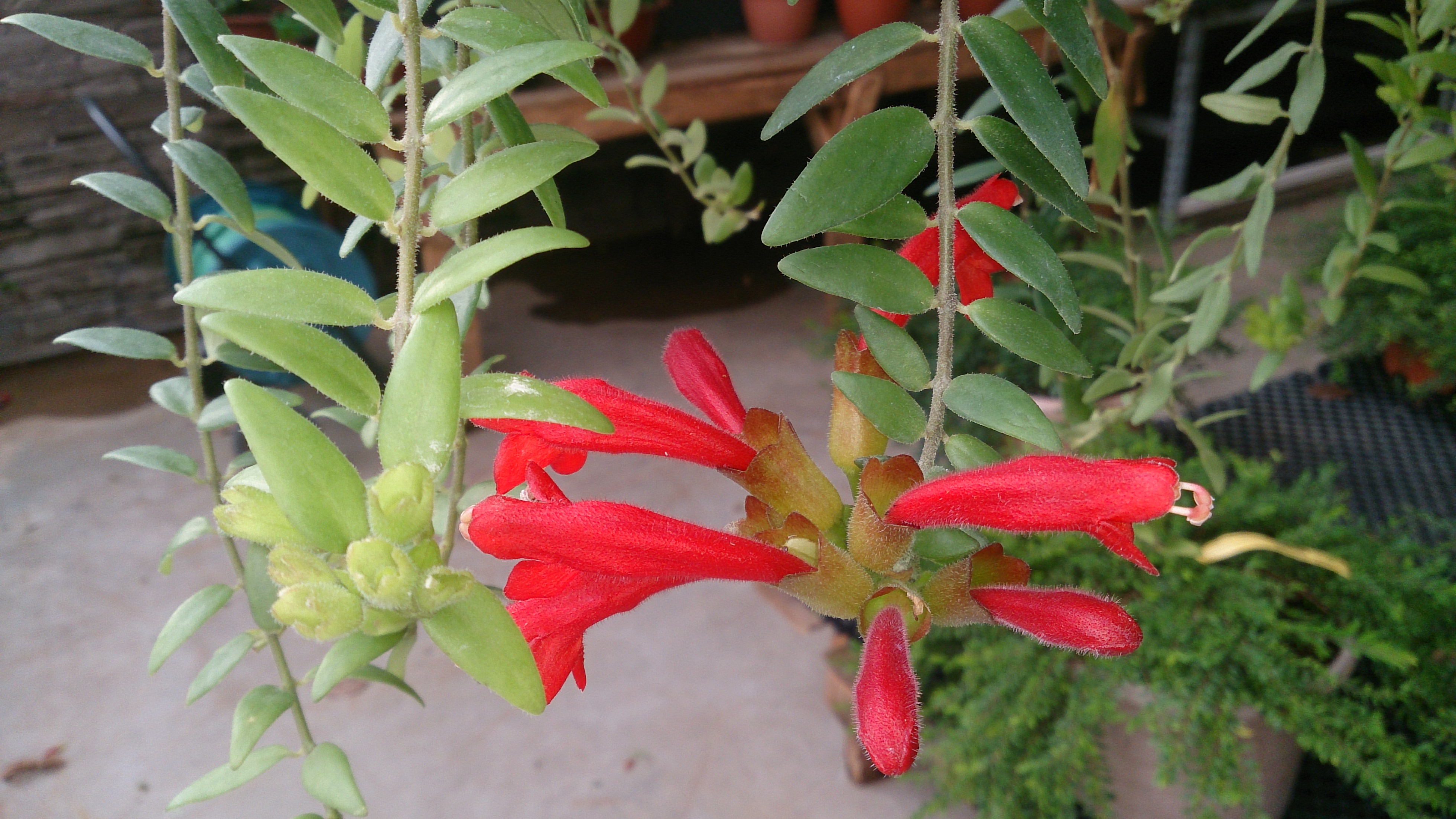 Aeschynanthus radicans. Common name: Lipstick Plant